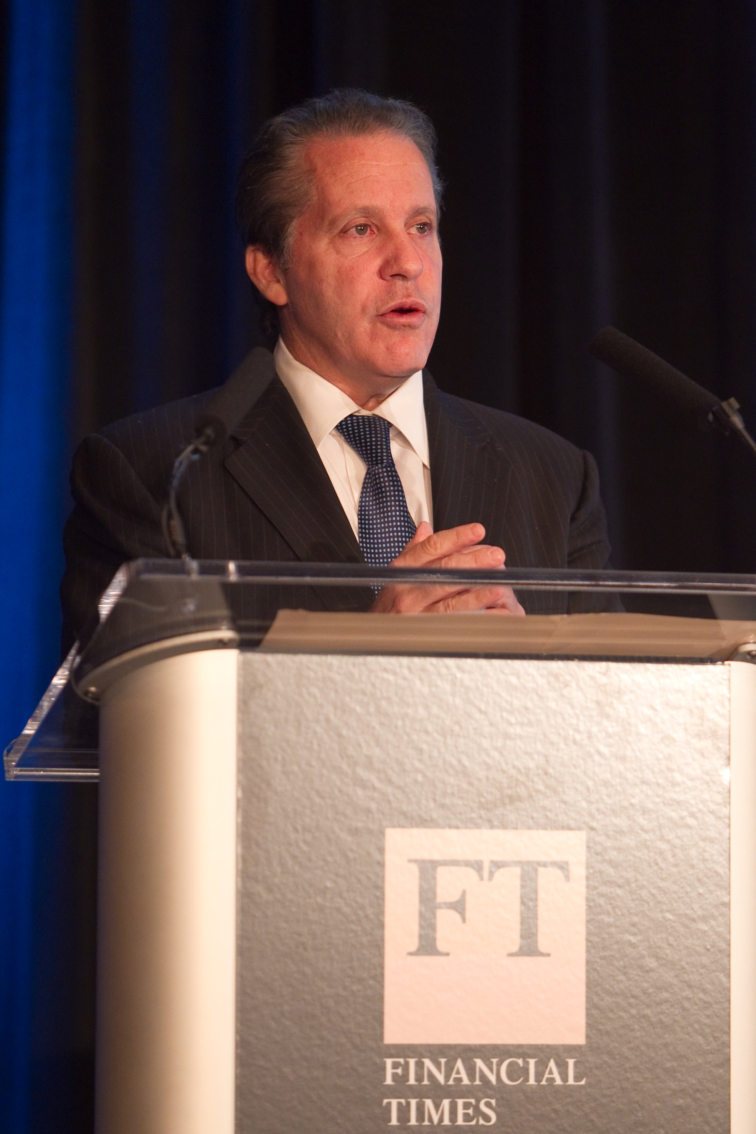 Gene Sperling at the Financial Times View from the Top: The Future of America conference. Photo credit: Daphne Borowski